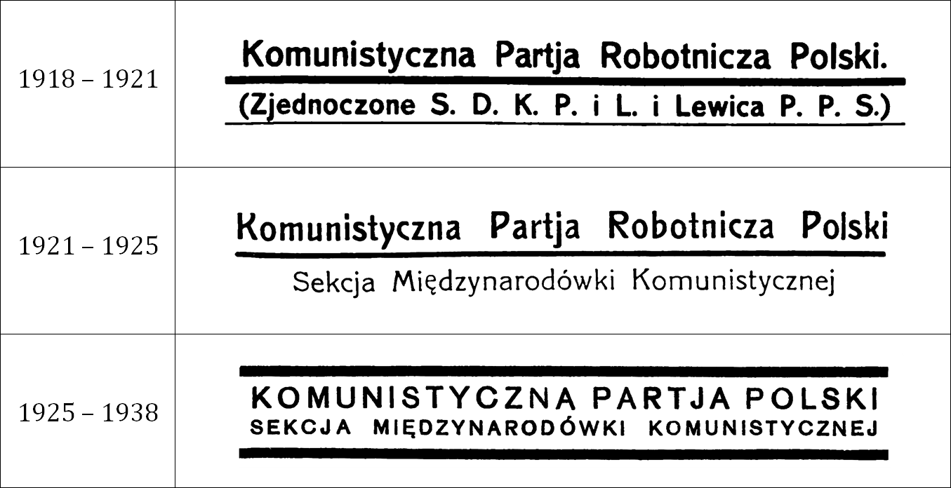 Names used by the Communist Party of Poland throughout its existence (1918-1938). Designs taken from pamphlets and flyers published by the party which are now in public domain: Nowe gwałty kontrrewolucji polskiej! (1919), Uchwały II-go Zjazdu Komunistycznej Partji Robotniczej Polski (1923), Rozszerzone Plenum Egzekutywy Międzynarodówki Komunistycznej (1925).